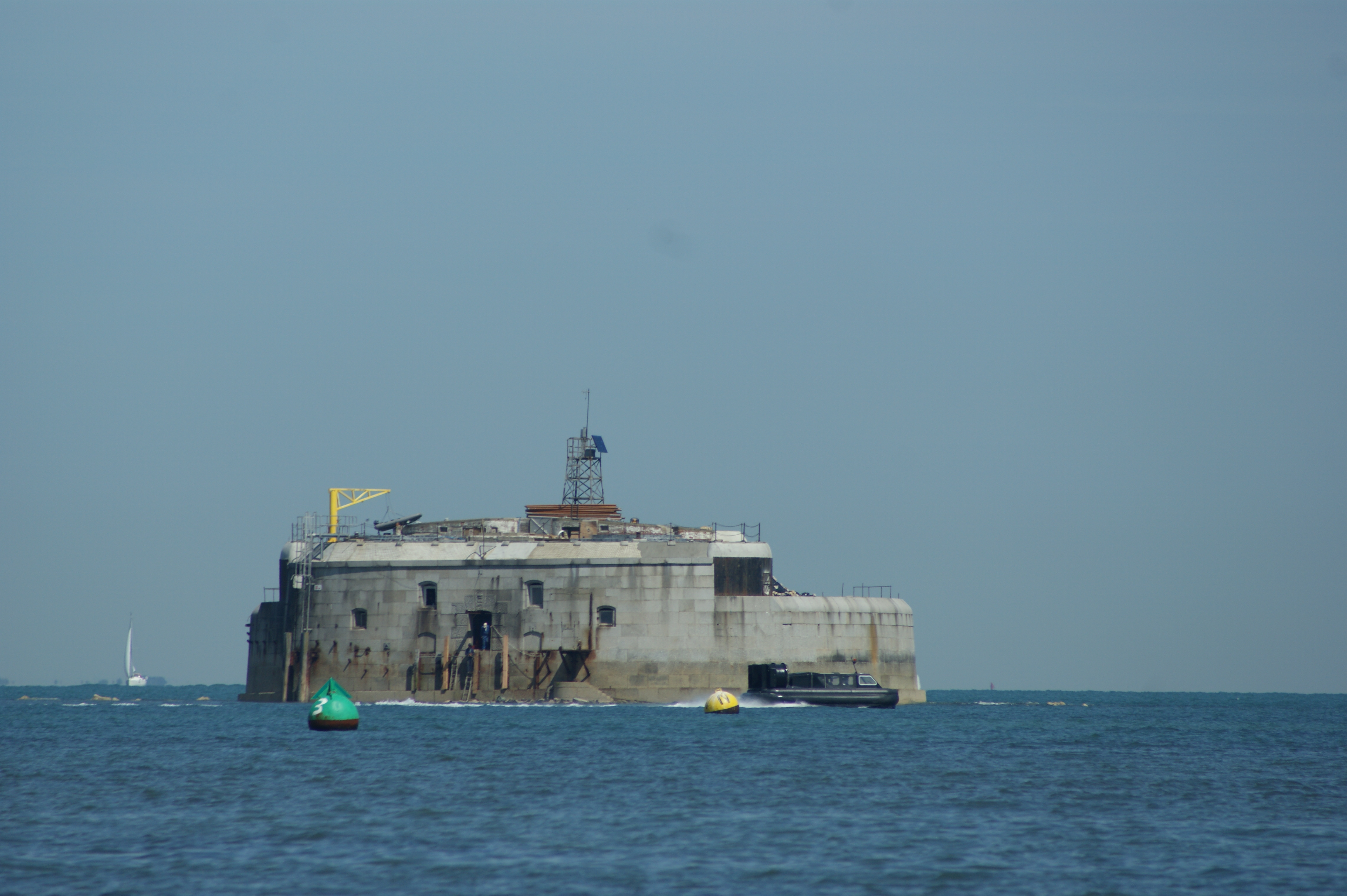 St Helens Fort, seen from the seafront at St Helens, Isle of Wight.